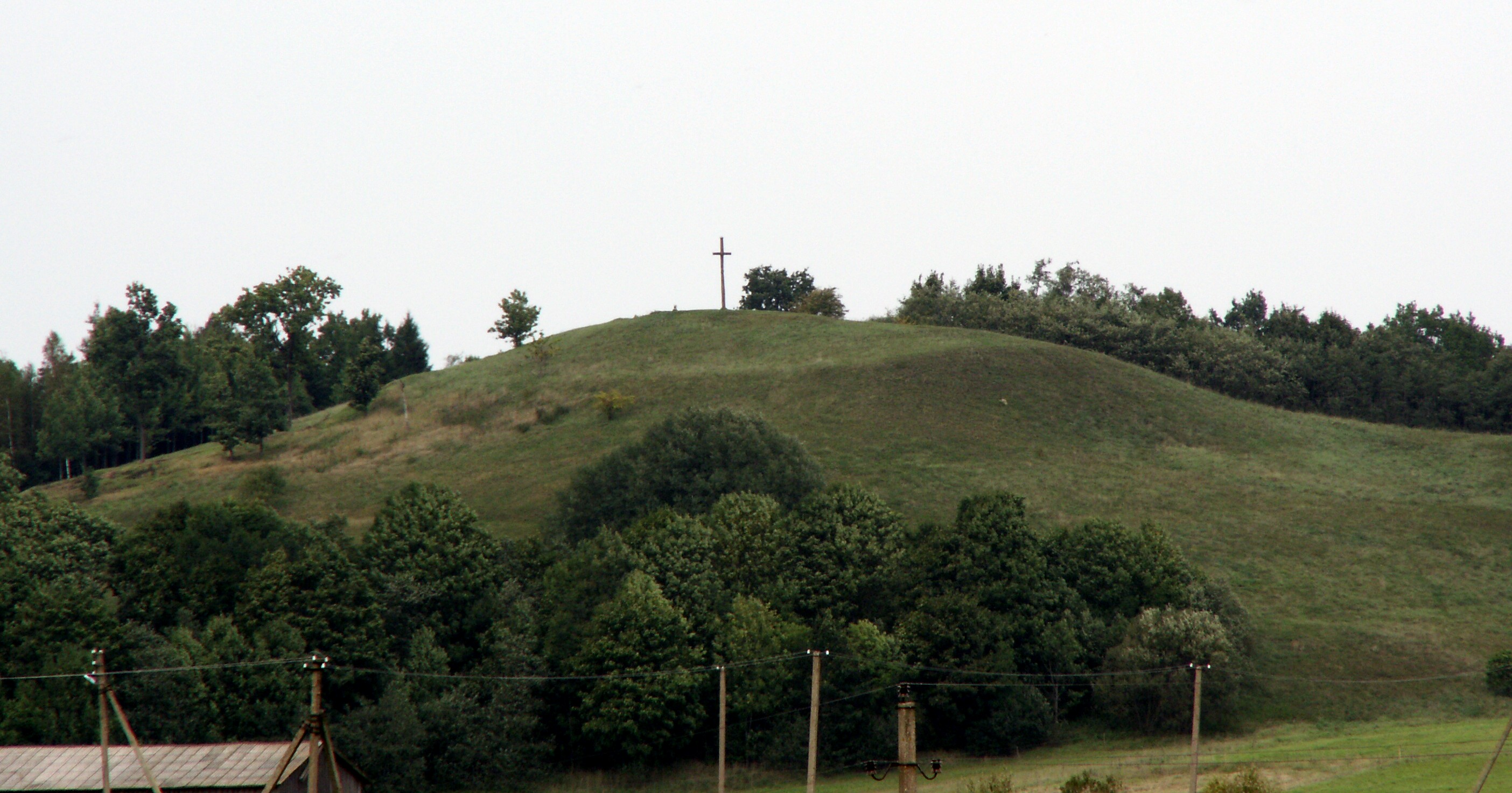 Moteraitis, Lithuania